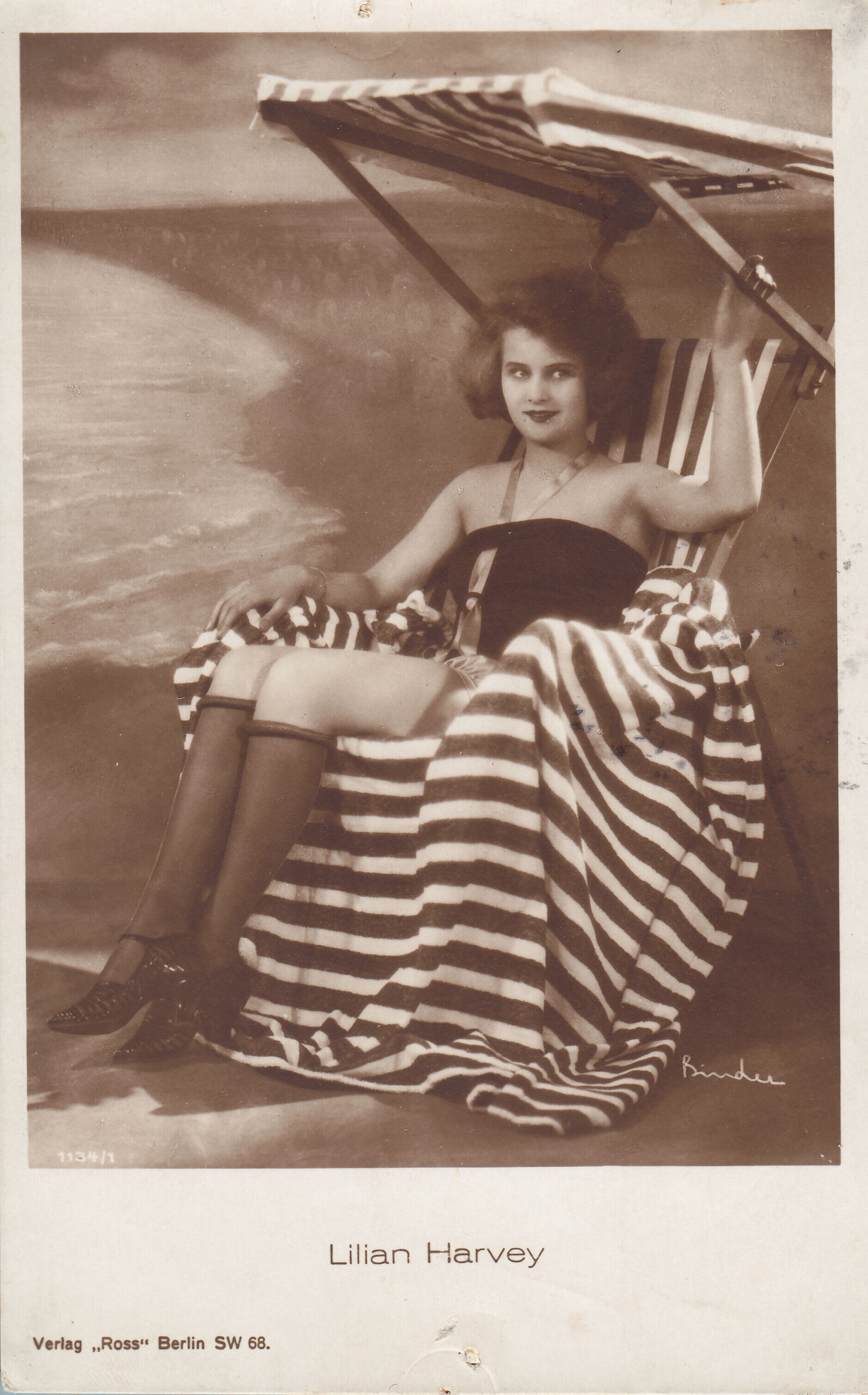 Lilian Harvey. Signed: Binder, Ross Verlag 1134/1.